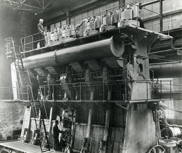 Testing of ships engine for Norwegian cargo vessel DICTO, at Götaverken, Gothenburg. The engine is the shipyards first dieselengine of own design and making.